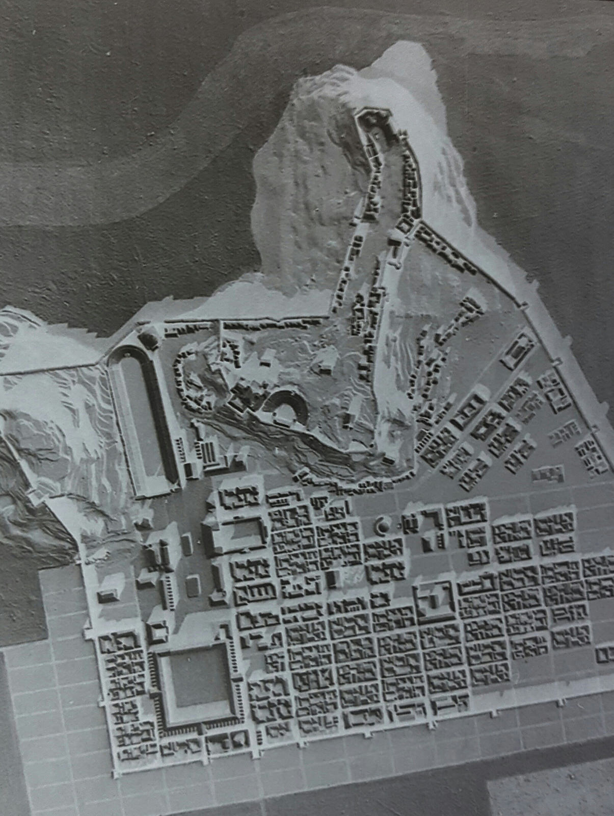 Urban plan of Philippopolis (IV century BC -VI century AD) based on a three dimensional model of arch. Matey Mateev published in the book Древният Филипопол (ISBN 978-954-491-821-7)